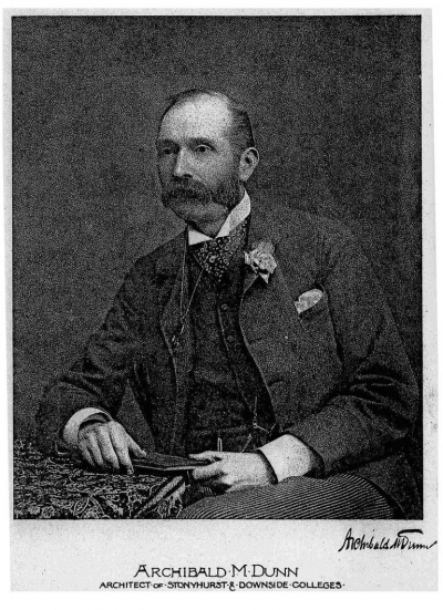 Photograph of Archibald Matthias Dunn (1832-1917)